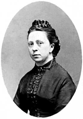 Elizabeth Anna Louise de Vos tot Nederveen Cappel (1844-1905), married to Anthony Ewoud Jan Modderman